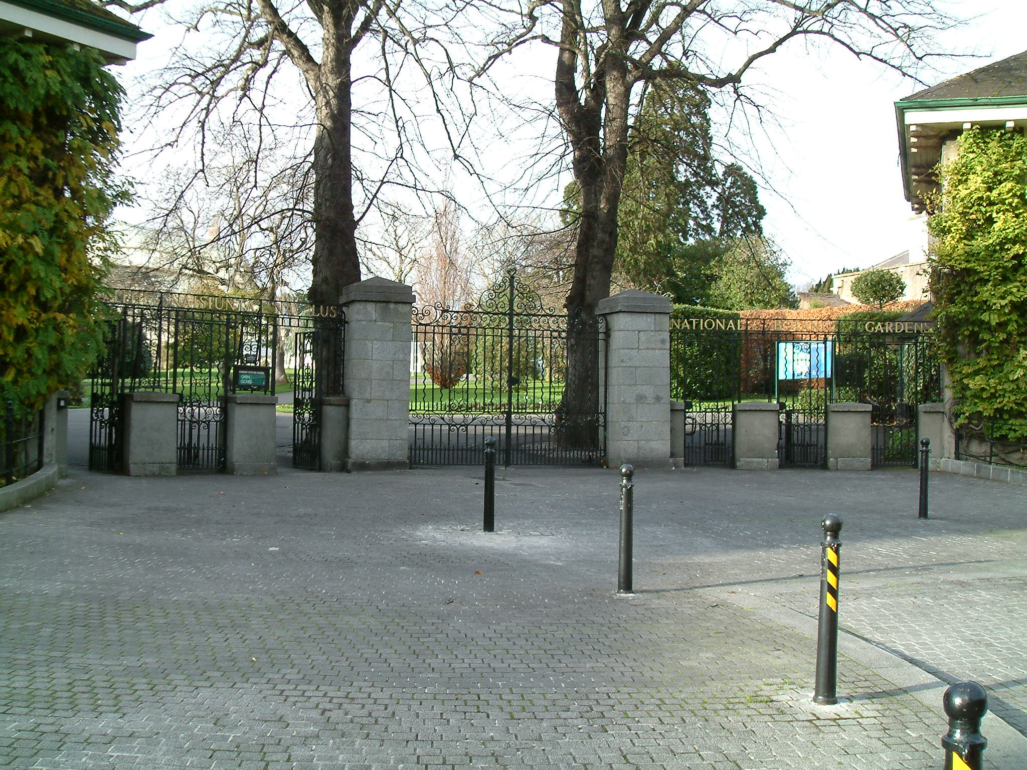 The entrance of the National Botanic Gardens in Dublin, Ireland Photographed on 28/11/2004 by Hedwig (me) at the National Botanic Gardens in Dublin.